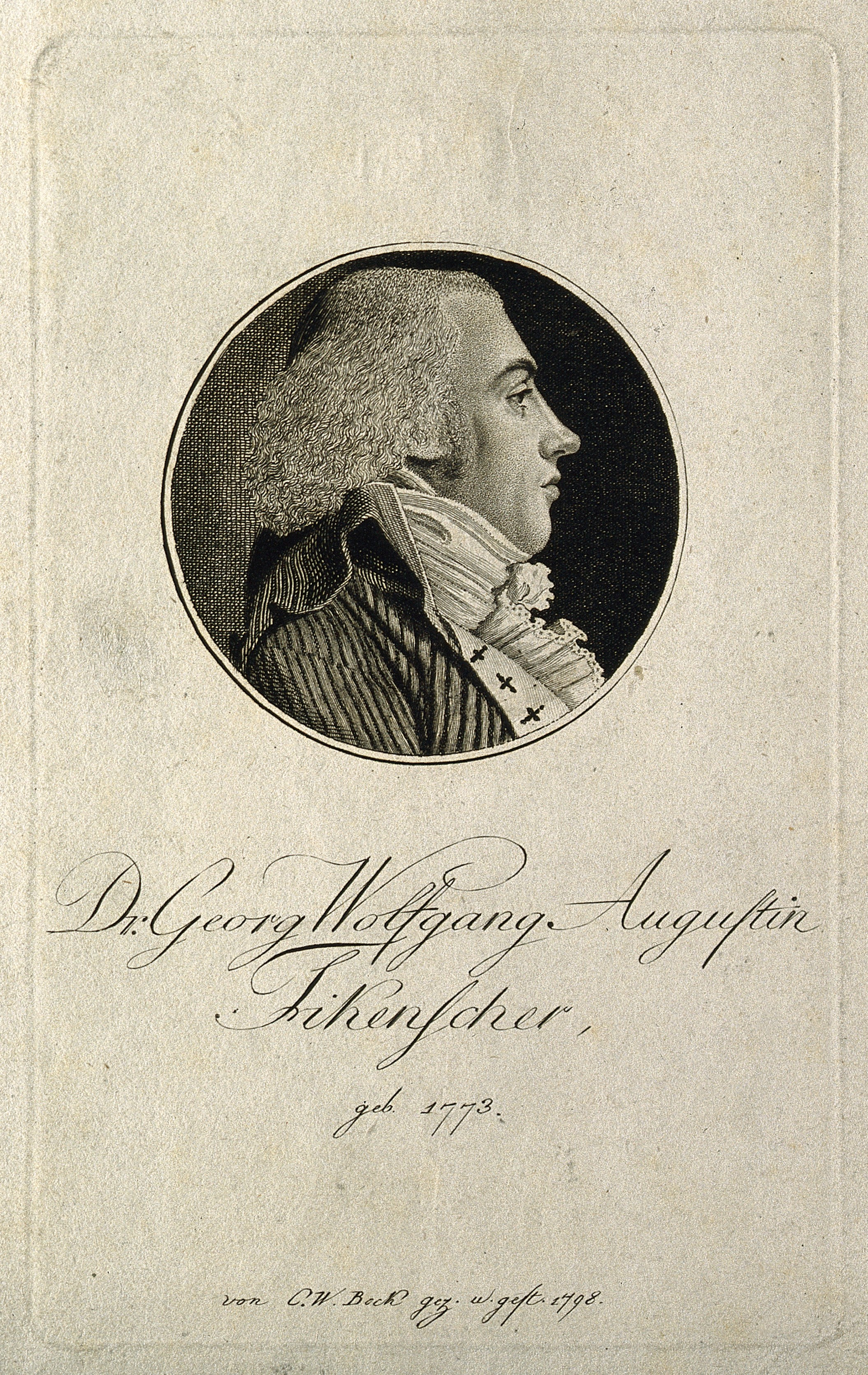 Georg Wolfgang Augustin Fikenscher. Stipple engraving by C. W. Bock, 1798, after himself. Iconographic Collections Keywords: portrait prints; Georg Wolfgang Augstin Fikenscher; stipple prints; Christoph Wilhelm Bock